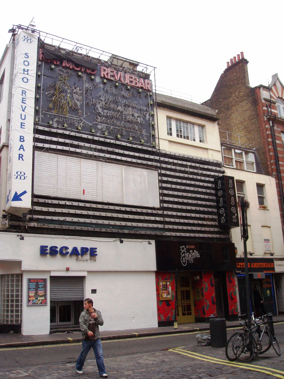 A club and live music venue on Brewer St (and another attached to it). Address: 8-10 Brewer Street (Madame JoJo's) and 10 Brewer Street (Escape). Owner: (Madame JoJo's website and Escape website).